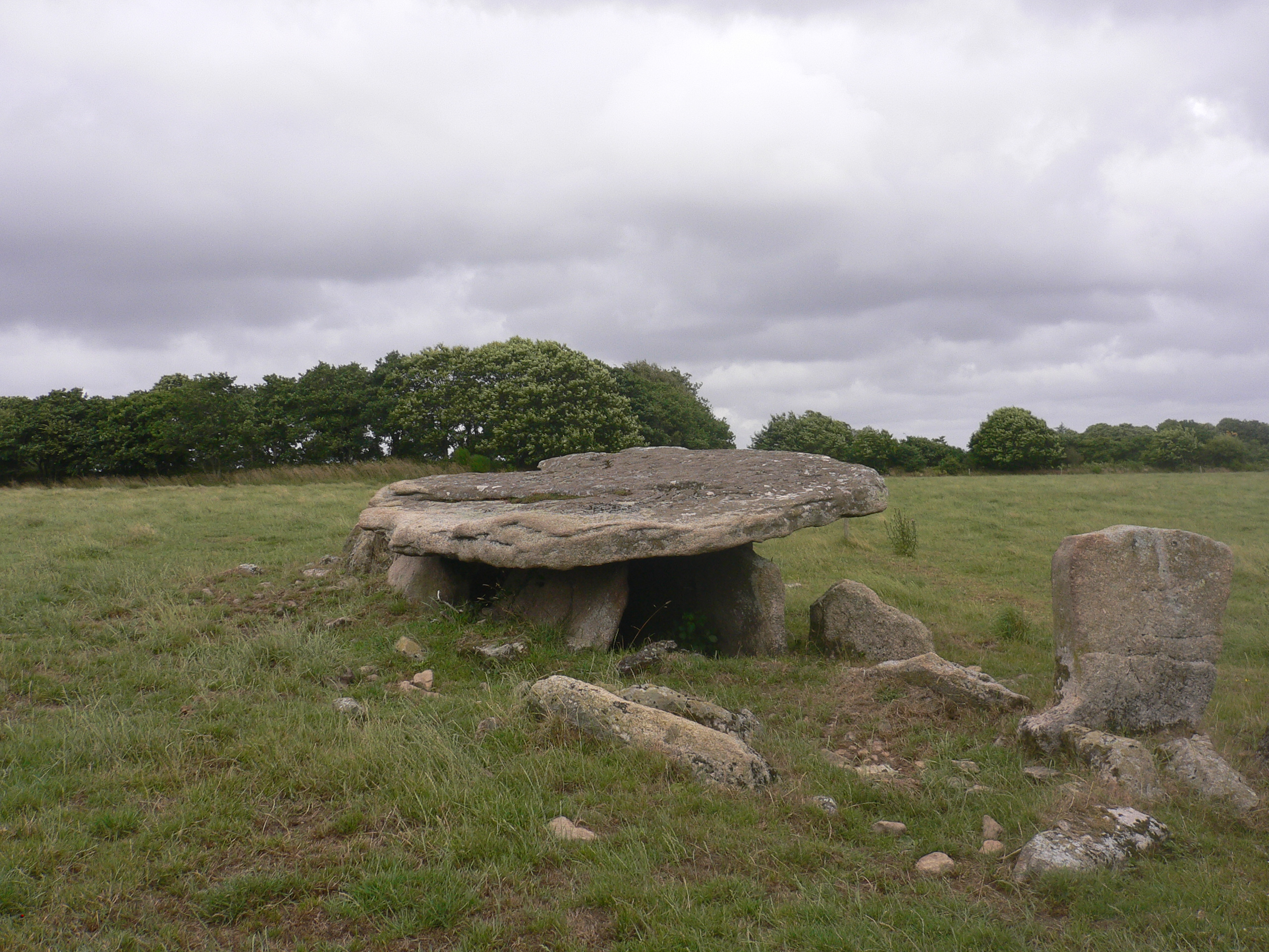 dolmen in Guiscriff, brittany